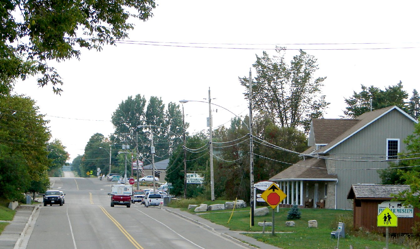 Mindemoya (Central Manitoulin), Ontario, Canada